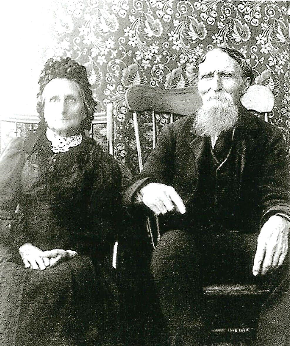 I inherited this photo of my ancestor from my mother, Blanche Eleanor Hill (nee Pond) after she died in early 2014. I have rephotographed and edited it.